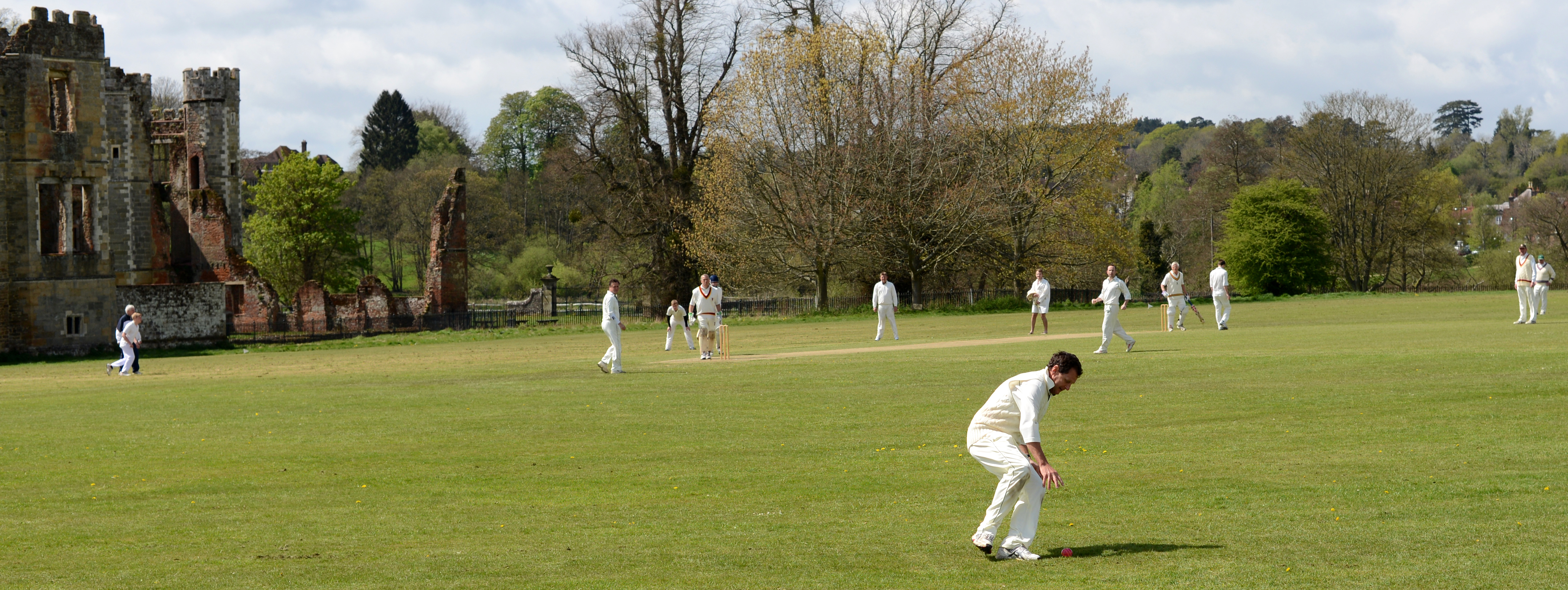 An early season game against Headley 3 in the I Anson league